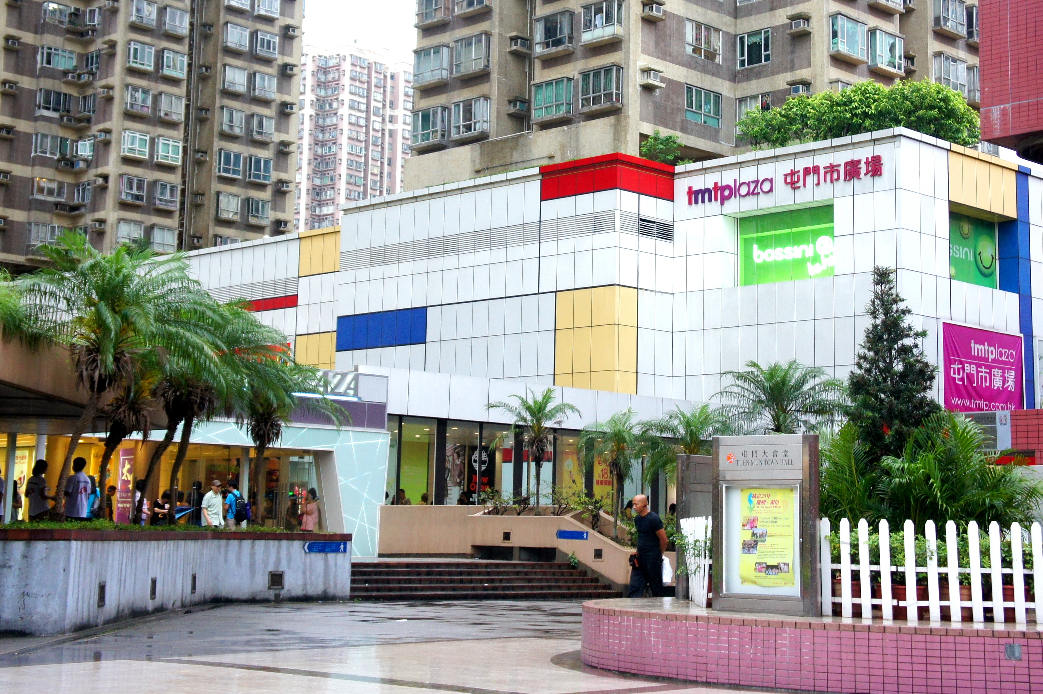 Tuen Mun Town Plaza, New Territories, Hong Kong. On the left is a footbridge connecting Tuen Mun Cultural Square and the south west corner of the Tuen Mun Town Plaza Phase 1.